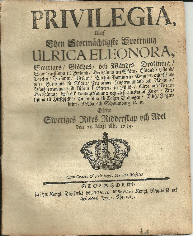 Privilegio by Ulrica Eleonora, Queen of Sweden